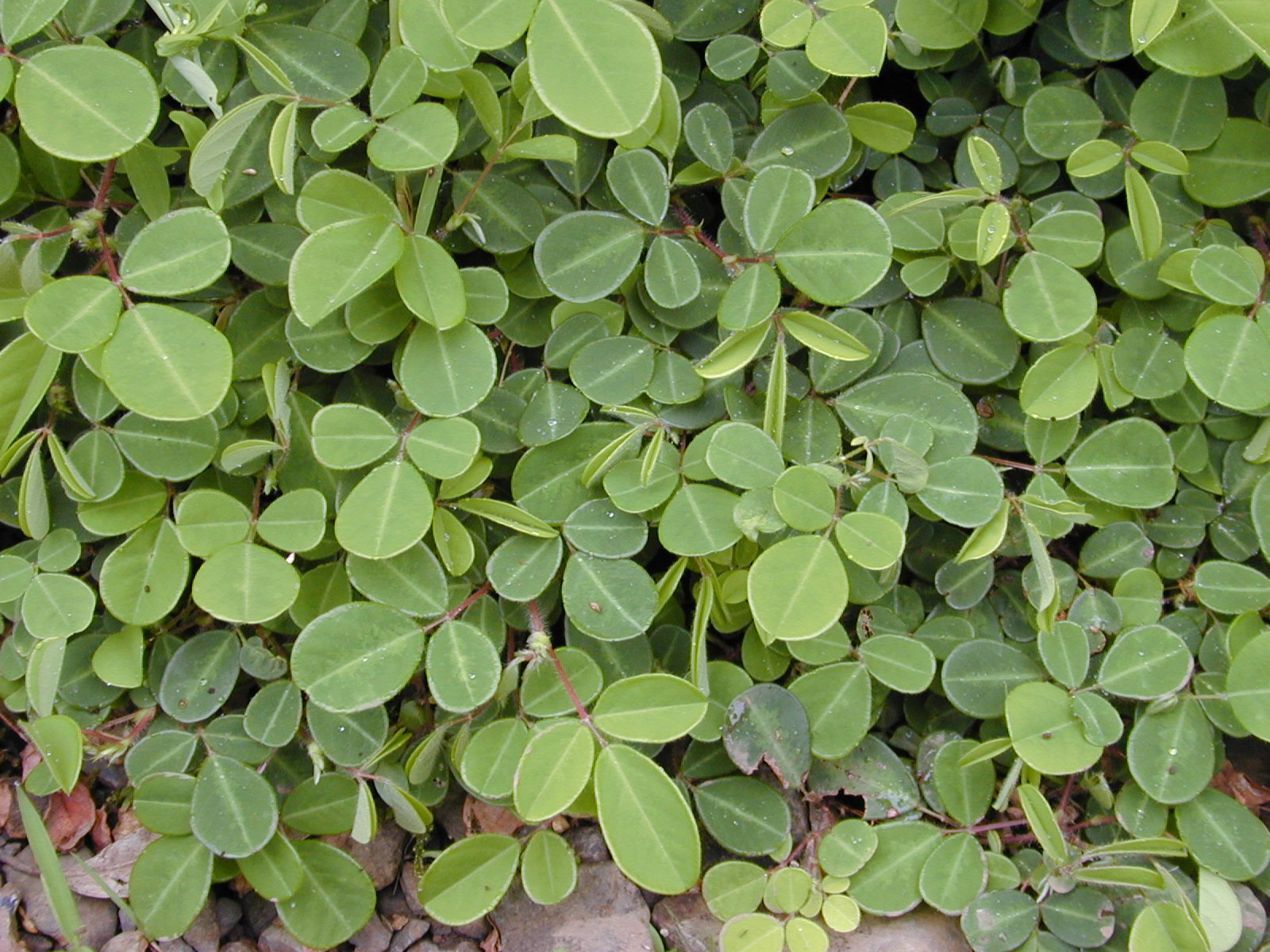 Desmodium triflorum (habit). Location: Maui, Wahinepee